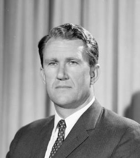 Malcolm Fraser in 1966. AWM Collection Record: MAR/66/0025/HQ AWM image MAR/66/0025/HQ ID Number: MAR/66/0025/HQ Maker: Department of Army Place made: Australia: Australian Capital Territory, Canberra Date made: 1 February 1966 Physical description: Black & white Summary: Minister for the Army Mr Malcolm Fraser. Copyright: clear Related conflict: Vietnam War, 1962-1972